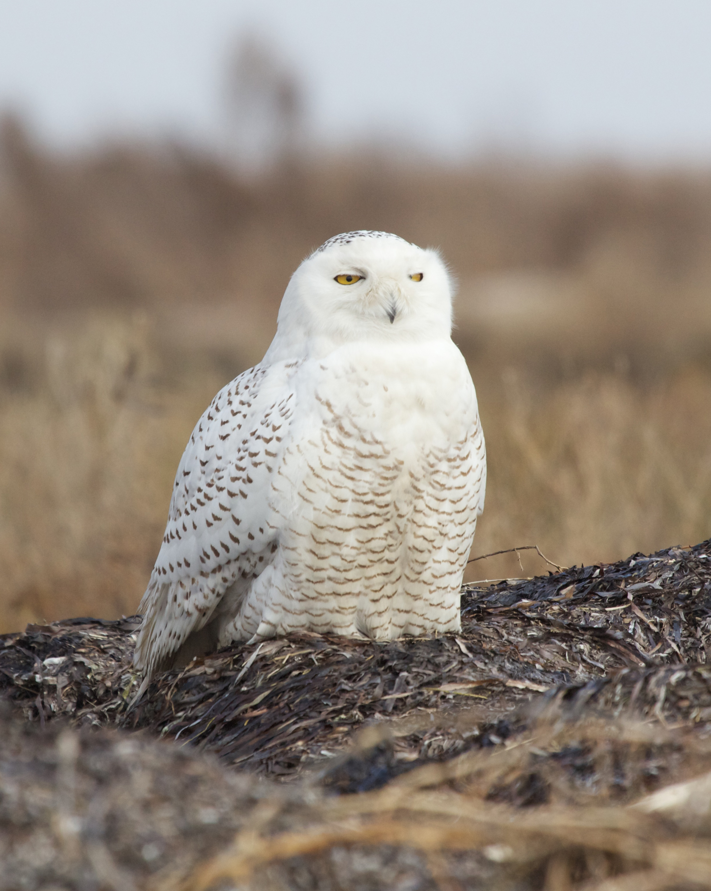 Snowy Owl Bubo scandiacus, Delta, British Columbia, Canada.